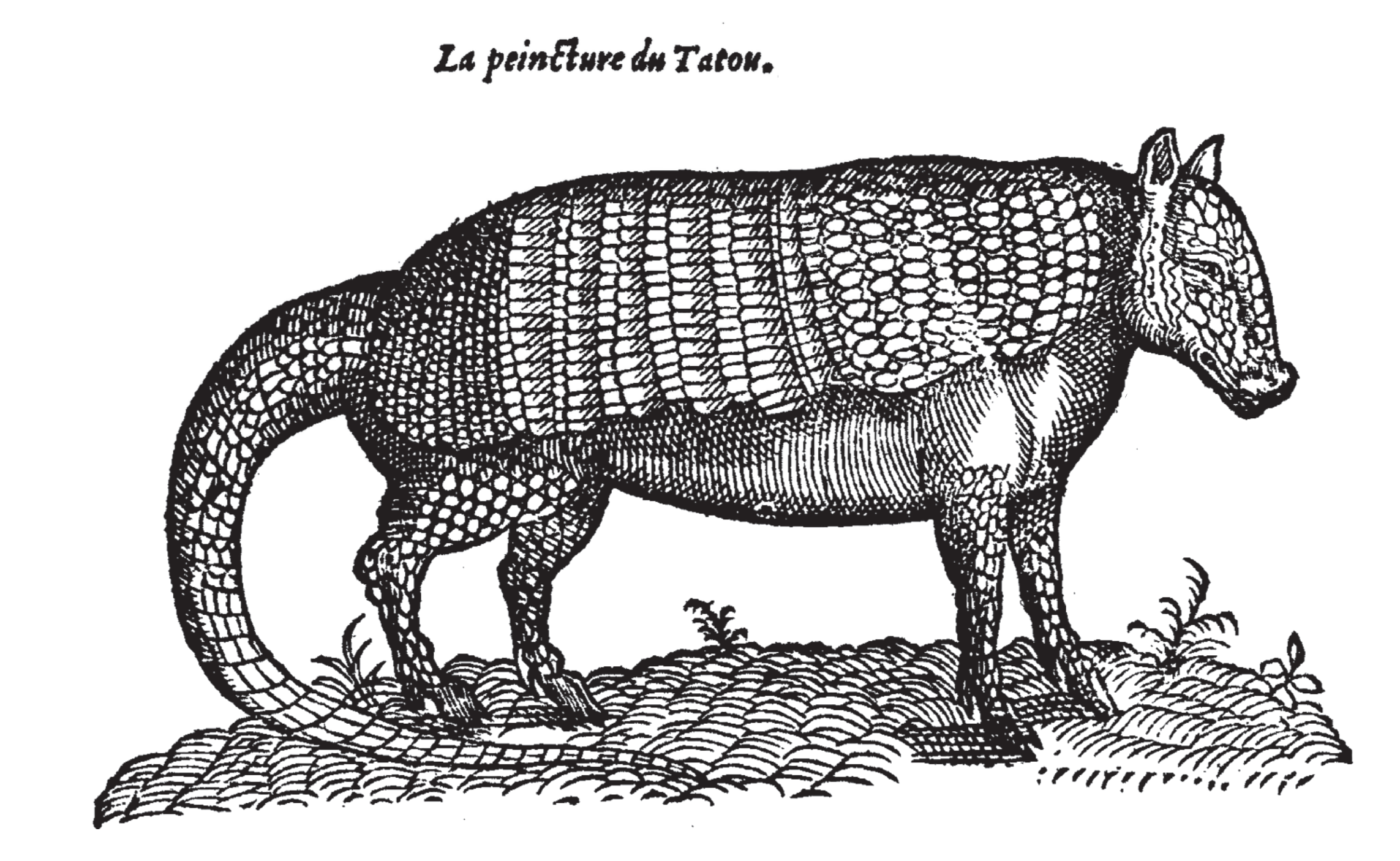 One of the first drawings of an armadillo from 1553, first printed in Pierre Belon: Les Observations De Plusieurs Singularites et Choses Memorables Trouvée En Grèce, Asie, Judée, Egypte, Arabie et Autres Pays Estrangèrs, Redigées Trois Livres. Paris, 1553, pp. 1–468 (p. 467) ([1]), reproduced in Bruce J. Shockey: New Early Diverging Cingulate (Xenarthra: Peltephilidae) from the Late Oligocene of Bolivia and Considerations Regarding the Origin of Crown Xenarthra. Bulletin of the Peabody Museum of Natural History 58 (2), 2017, pp. 371–396 (fig 1)